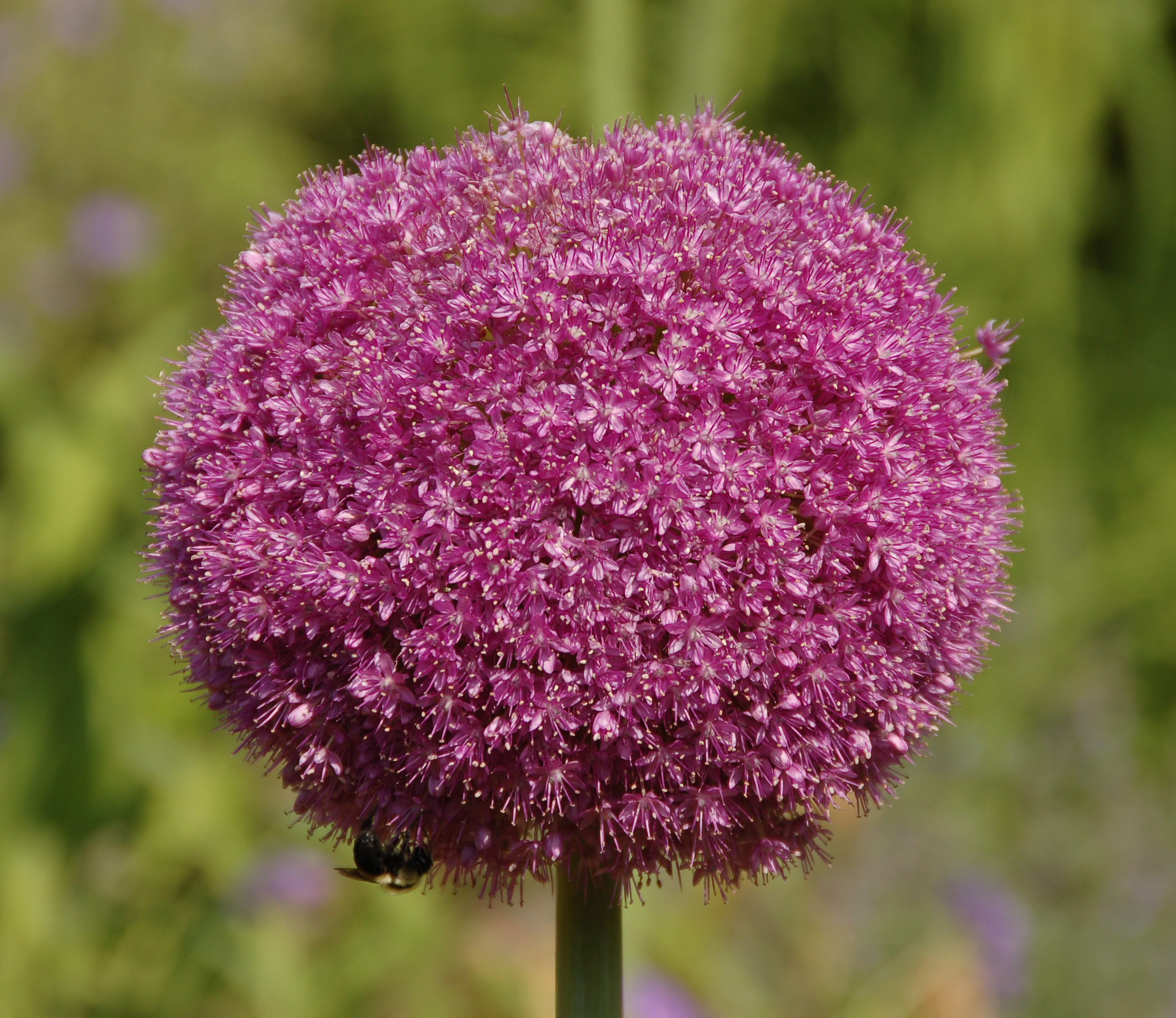 Picture of a flower head of an Allium en 'Lucy Ball', a hybrid of Allium elatum en and Allium aflatunense en . Photo taken in the Pond Garden in Bed 1, 2 3, or 4 at the Chanticleer Garden where the species was identified.